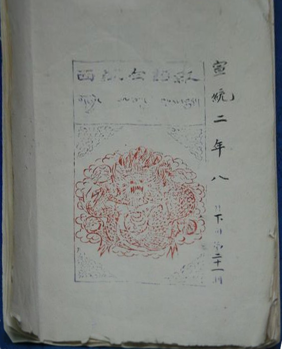 Tibet vernacular paper cover. 宣统二年 = 1910 八月 (8th month).下？ 第二十一期 （21th issue).中文（中国大陆）: 西藏白话报。宣统二年 = 1910年。八月,下？ 第二十一期.